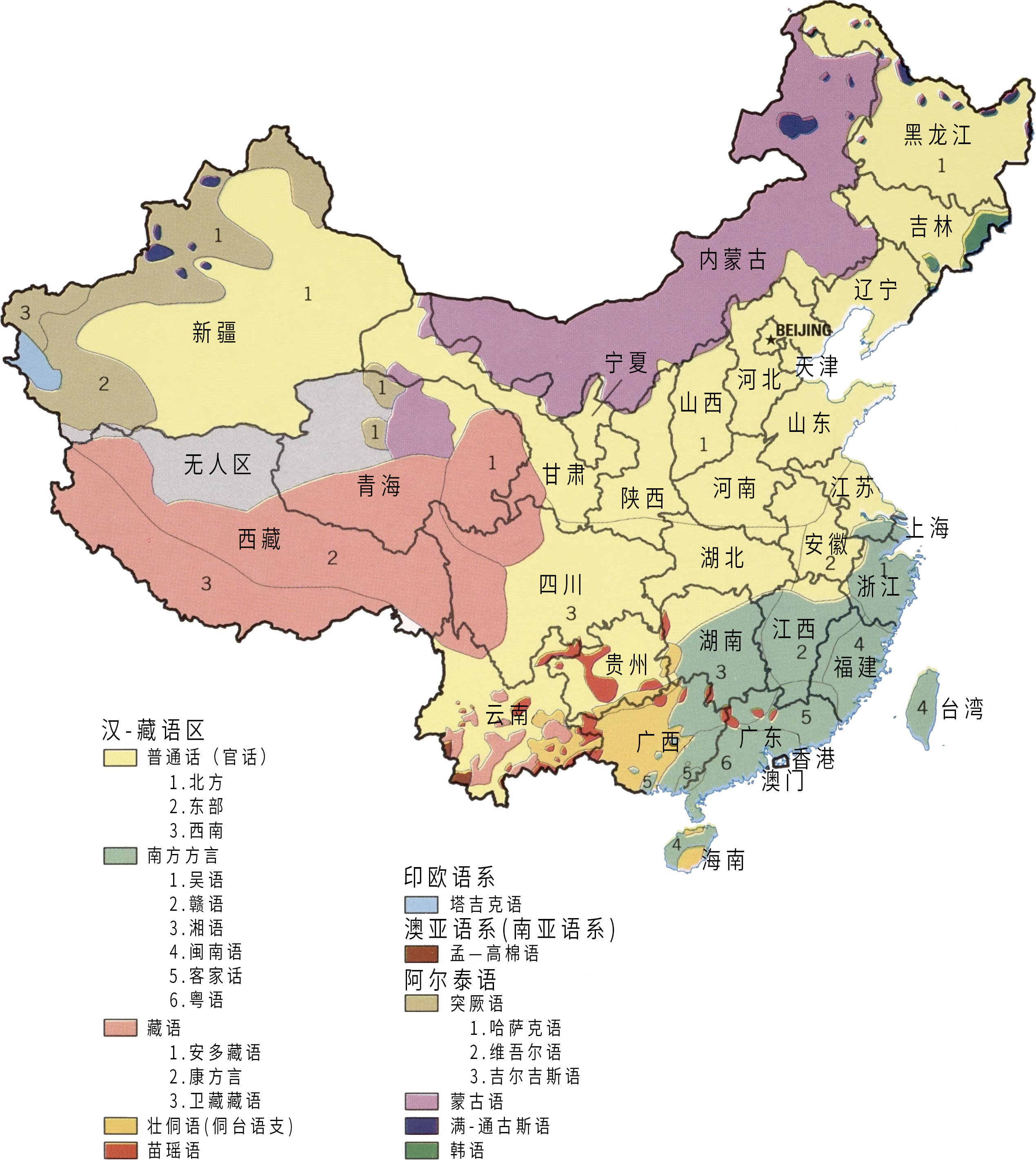 Chinese linguistic groups, 1990. The map shows the distribution of linguistic groups in China according to the historical majority ethnic groups by region. Note this does not represent the current distribution due to age-long internal migration and assimilation.